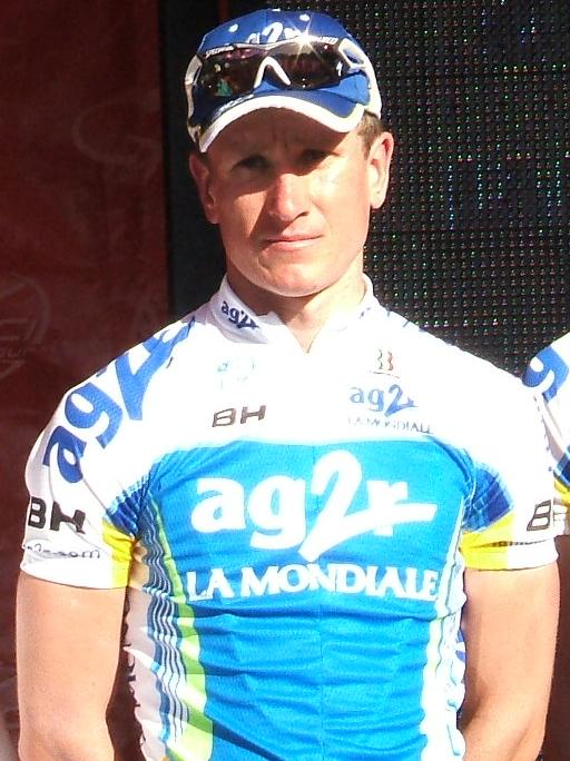 Named cyclist at the en:2009 Tour Down Under team presentation